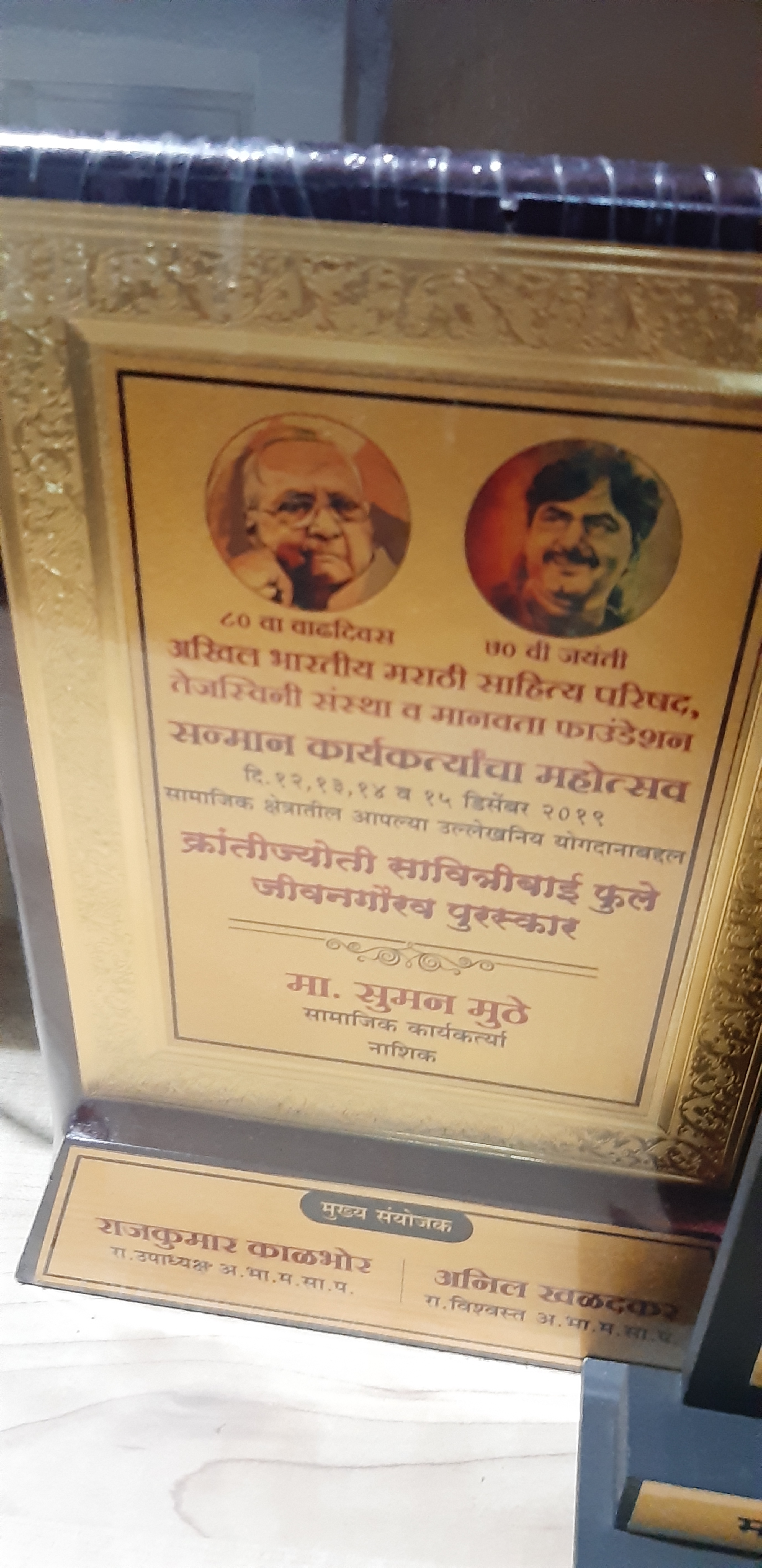 Award